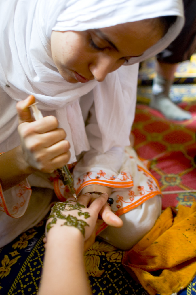 Girl putting henna in hands. Morocco.